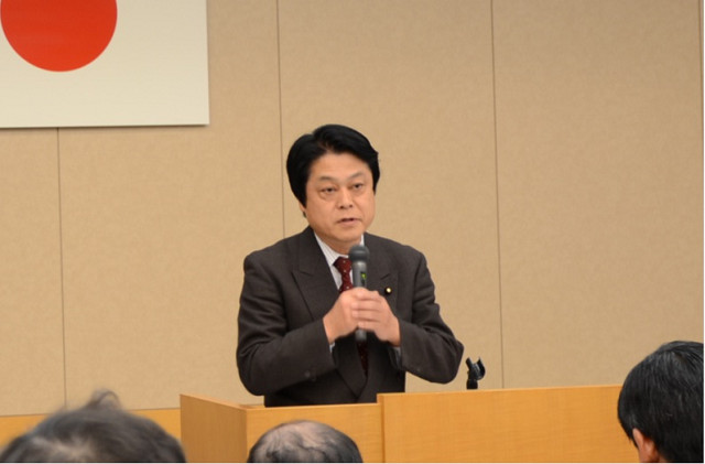 Akira Uchiyama, Parliamentary Secretary for Internal Affairs and Communications, attended a national meeting about statistics in Japan on April 20, 2011.(For terms of use, see 総務省｜当省ホームページについて.)